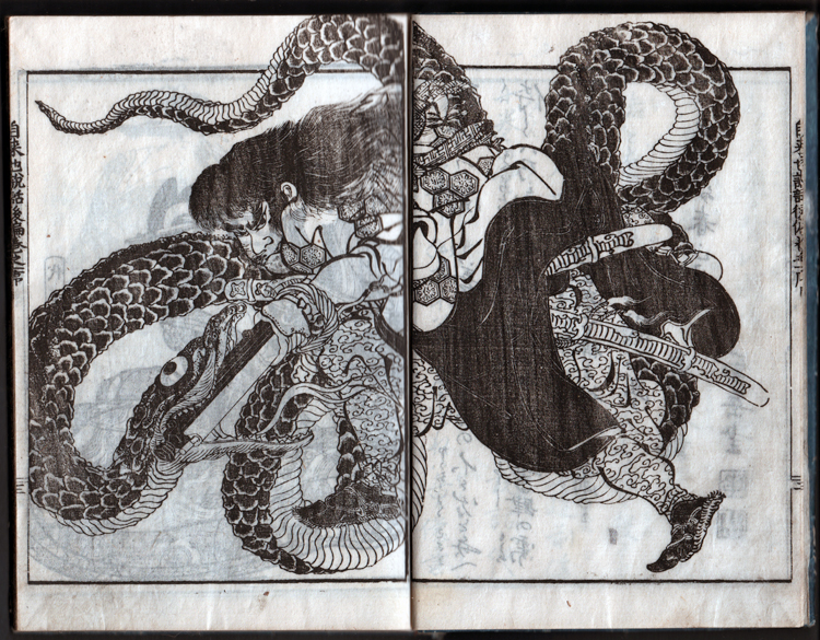 Orochimaru in “Jiraiya Goketsu Monogatari”